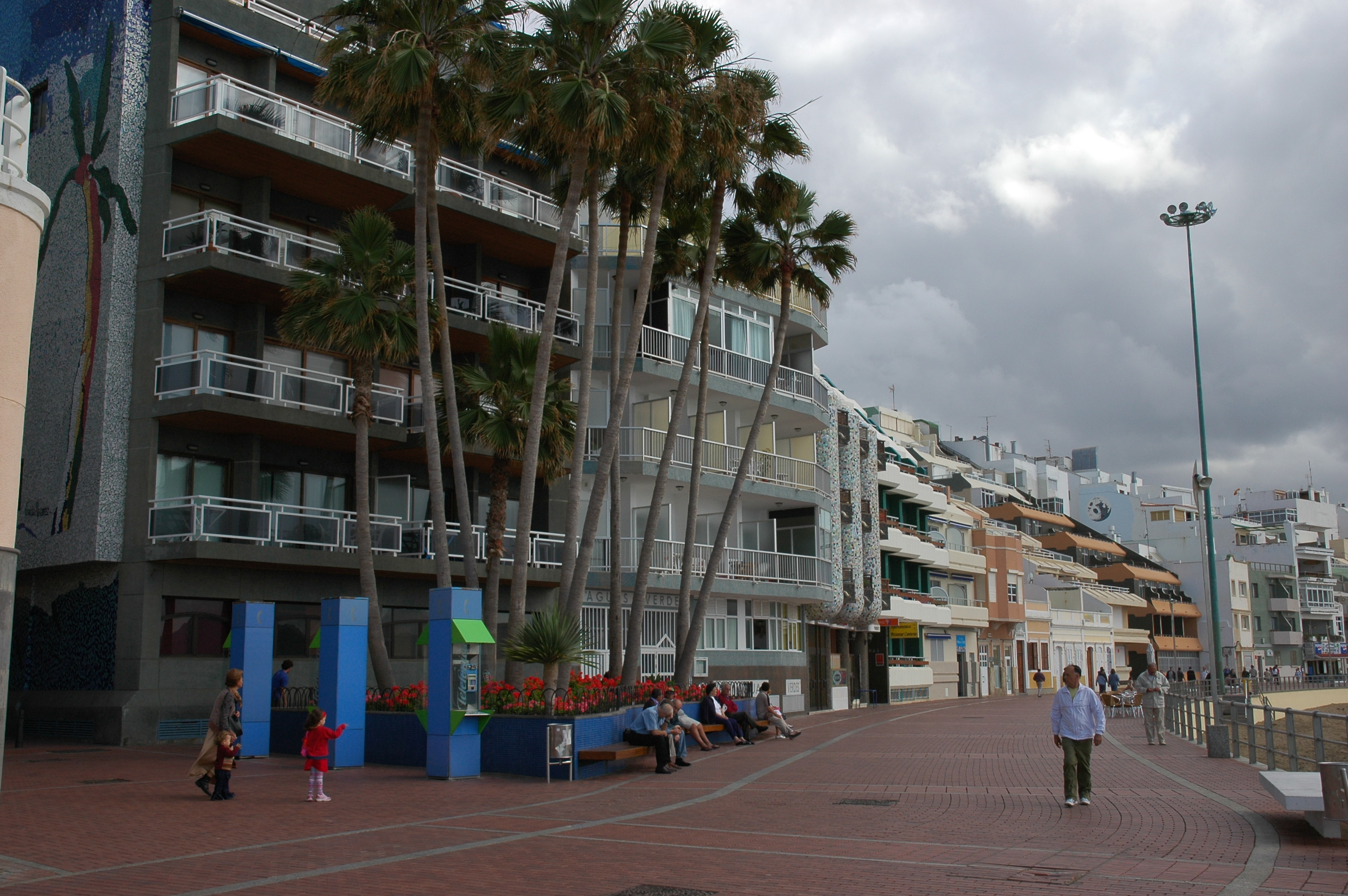 Avenue. Las Canteras Beach, Las Palmas de Gran Canaria. Canary Islands, Spain.